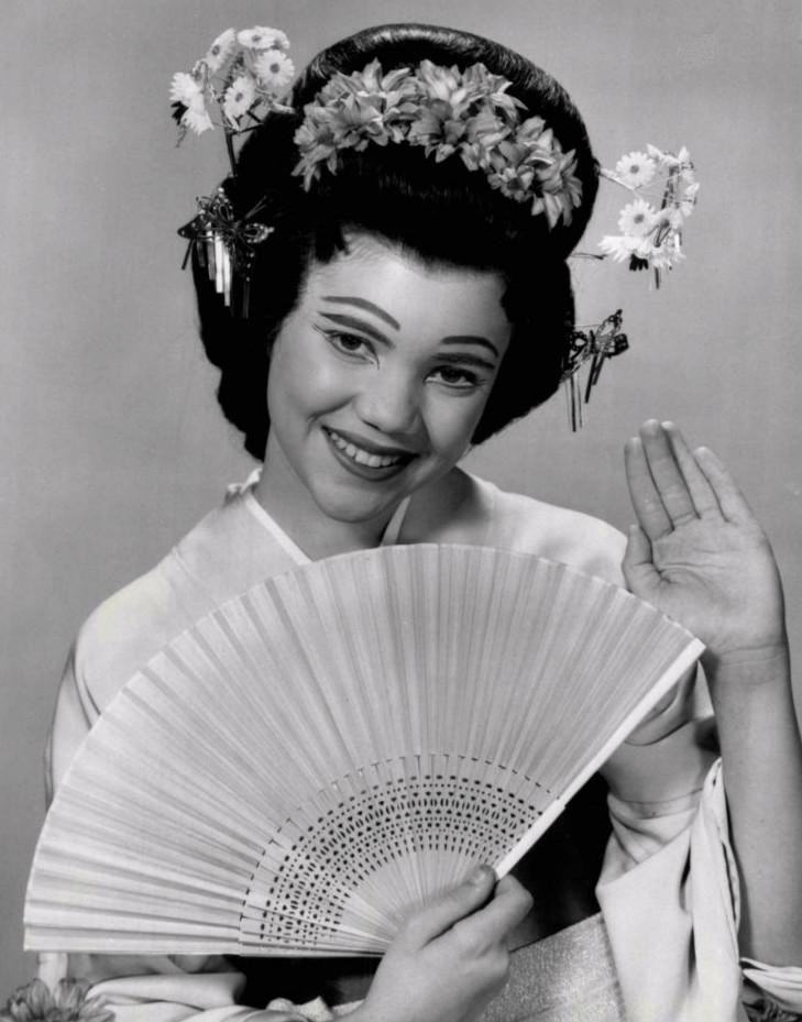 Photo of Melinda Marx as Peep-Bo from the Bell Telephone Hour presentation of The Mikado. Melinda's father, Groucho, played Koko, the High Executioner, in the presentation.